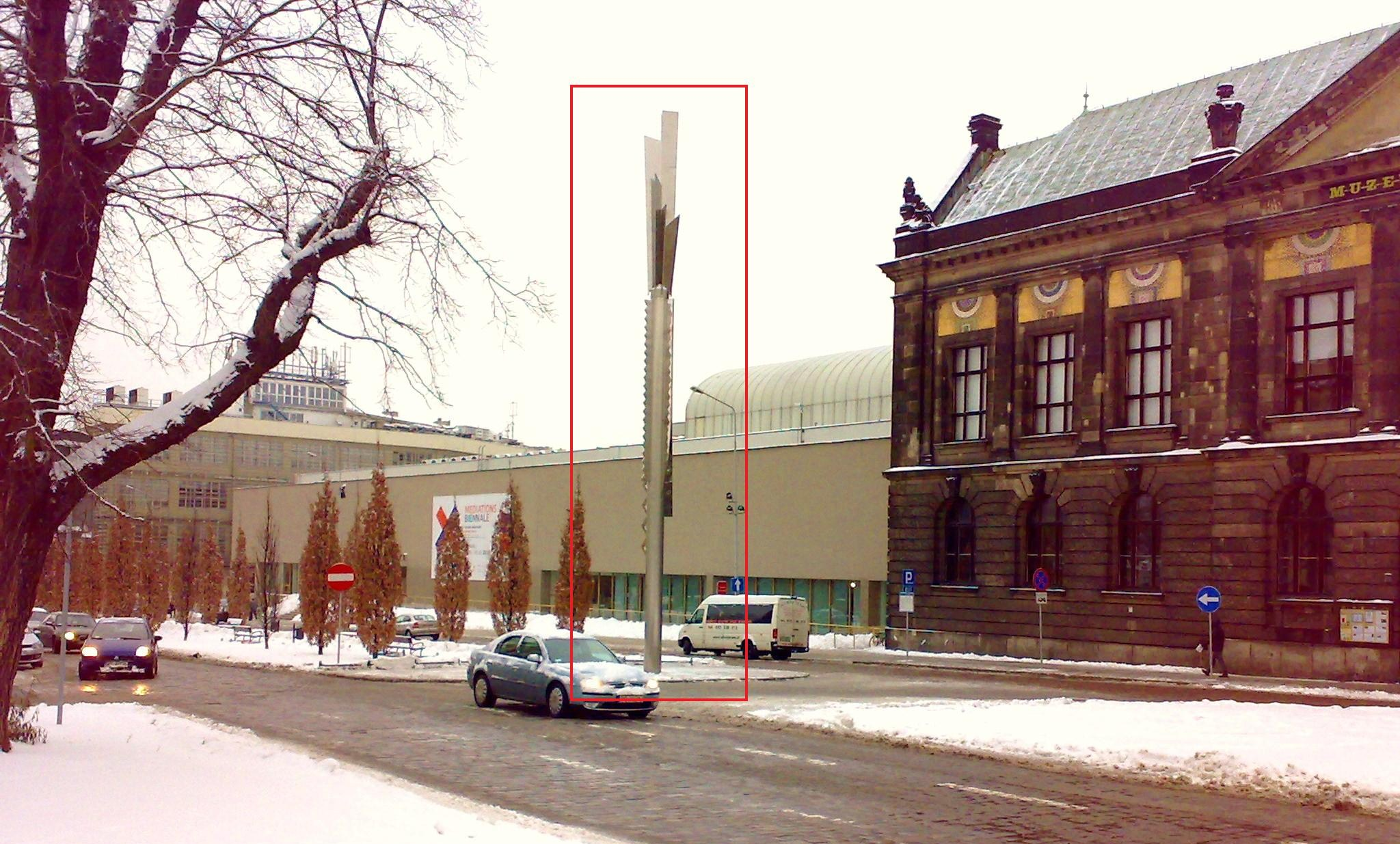 Stela from Heinz Mack - Poznan, Marcinkowskiego Av.